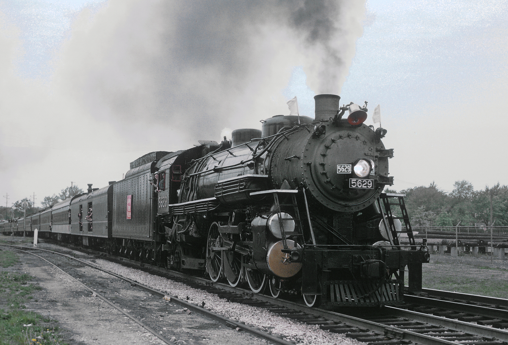 A Roger Puta Photograph